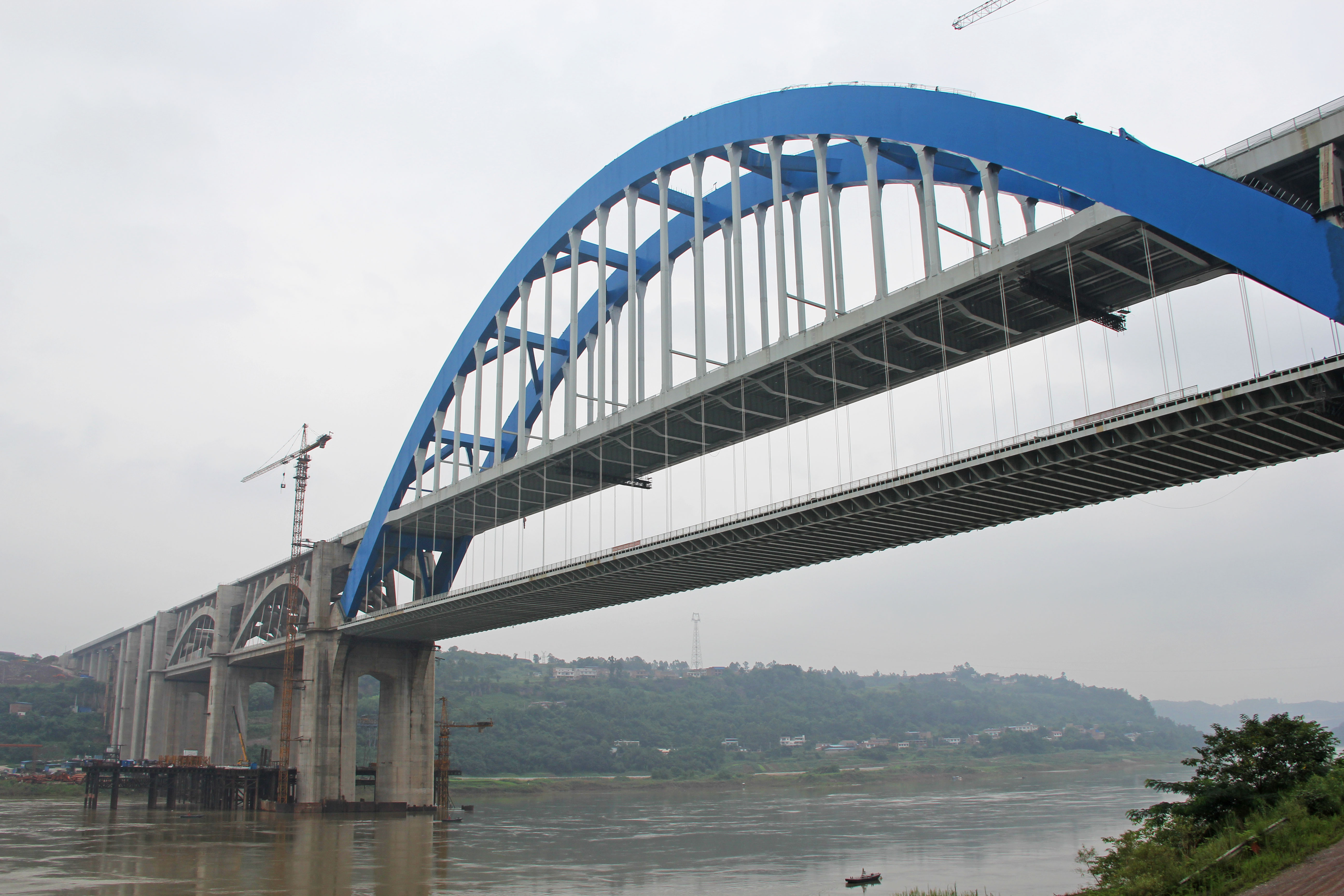 Yibin Chenggui Jinshajiang Railway Bridge.